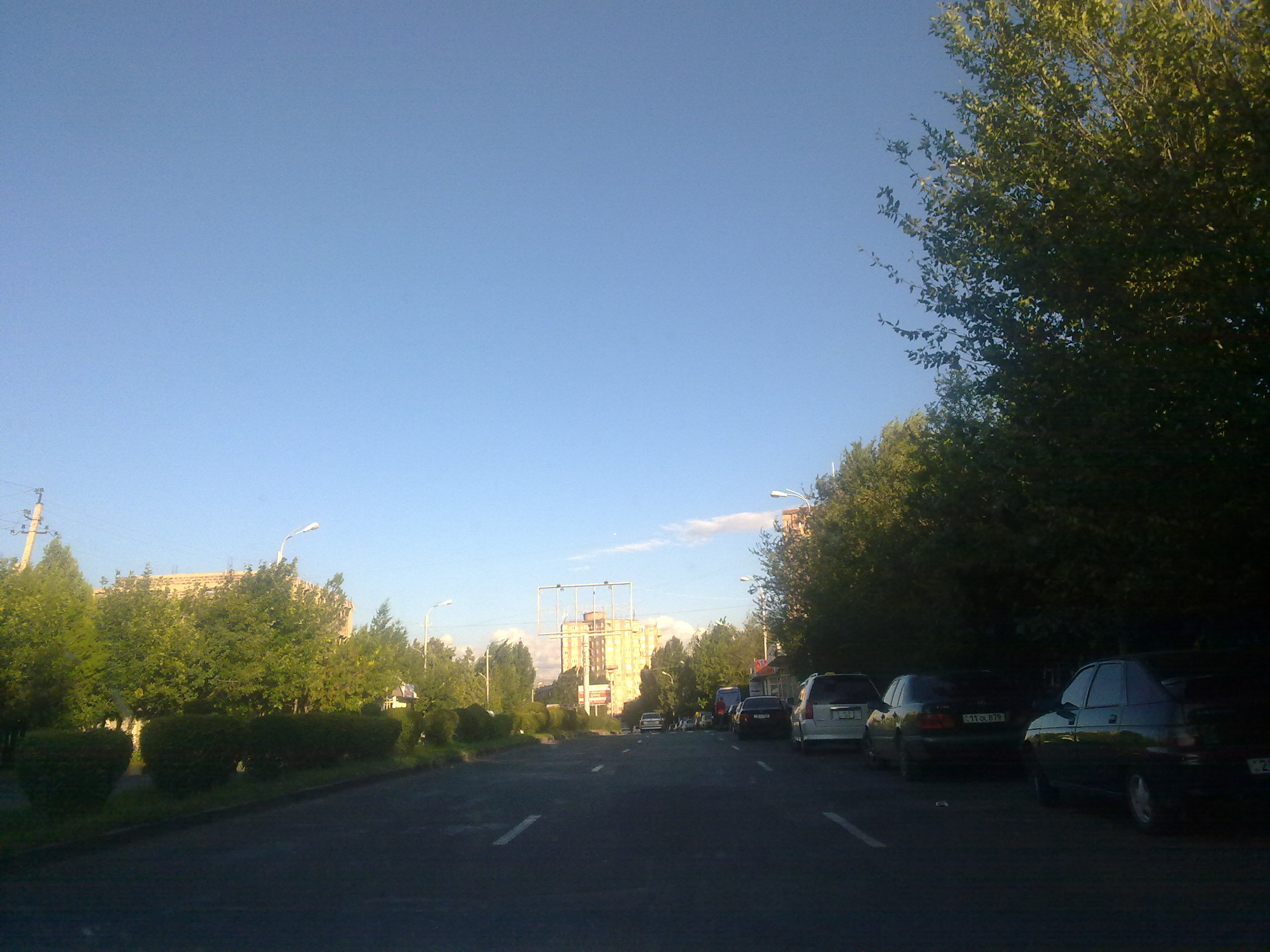 One of the streets of Aboyan city, Armenia.